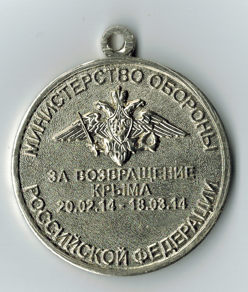 Medal «For the return of the Crimea», revers